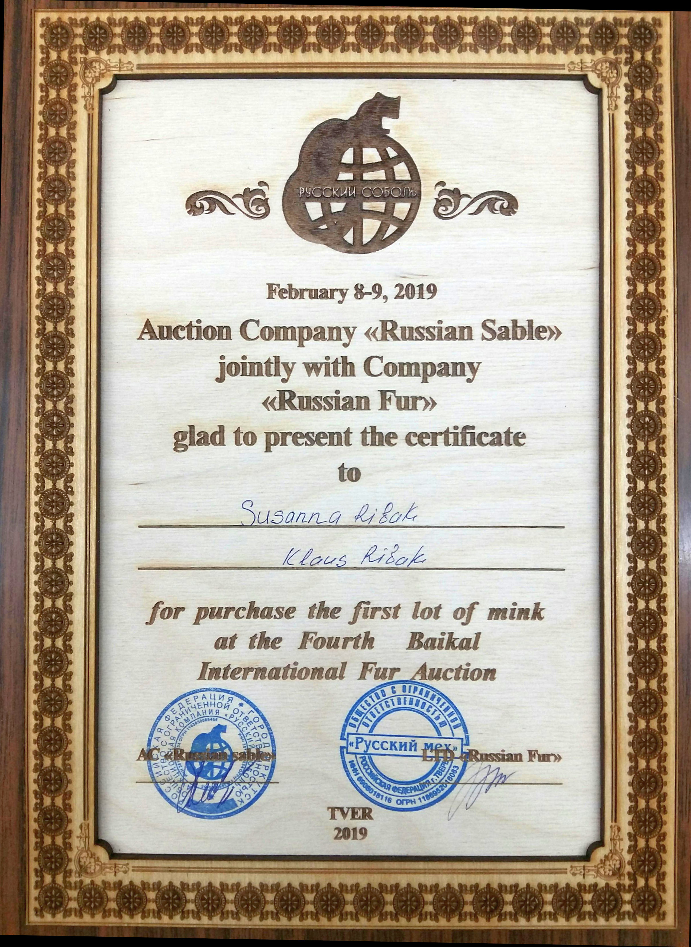 February 8-9, 2019. Auction Company «Russian Sable» jointly with «Russian Fur» glad to present the certificate to Susanna & Klaus Ribak for purchase the first lot of mink at the Fourth Baikal International Fur Auction, Auction Company «Russian Fur», February 8-9, 2019. Tver 2019.